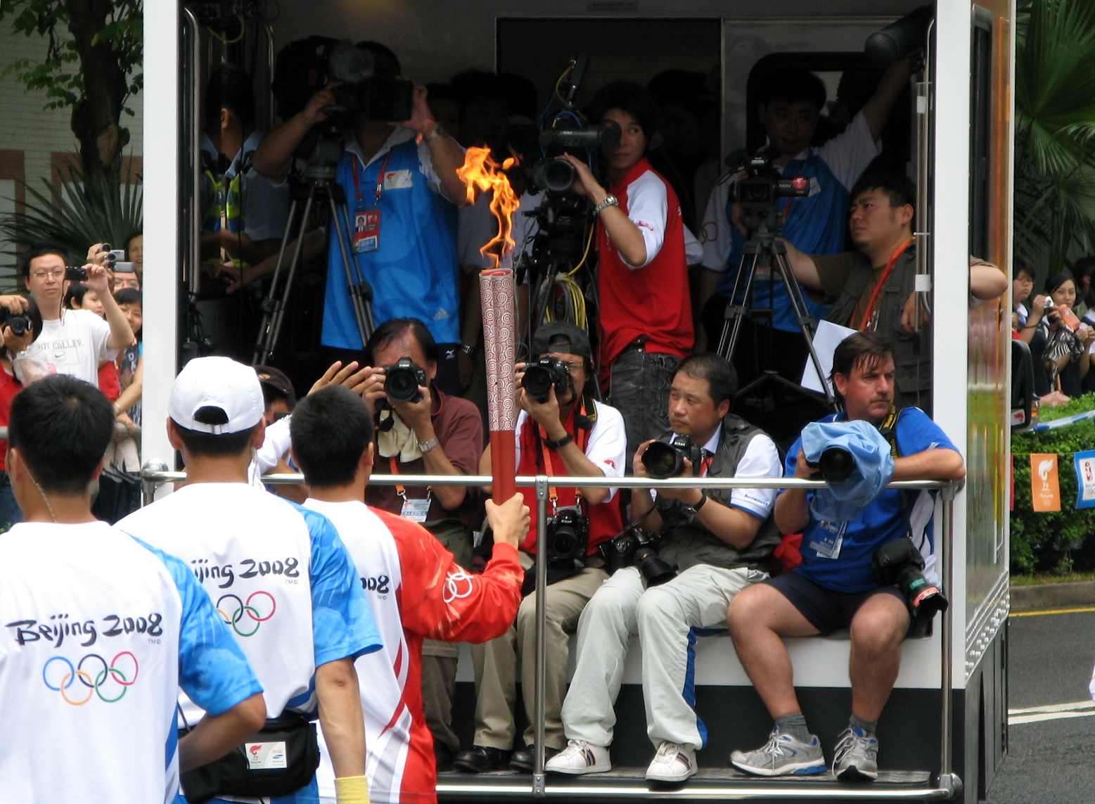 HK Olympic Torch Relay Celebration Press